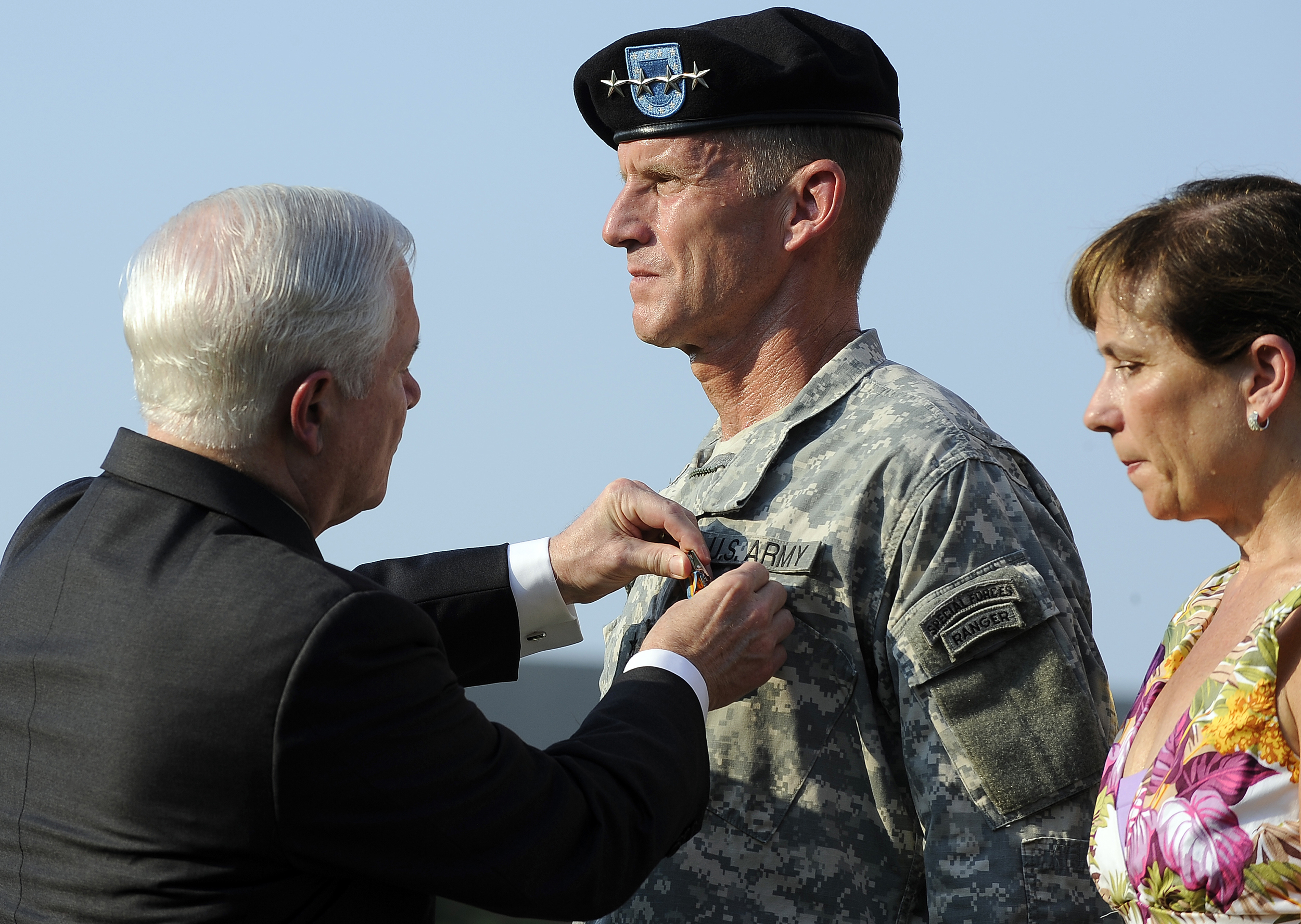 U.S. Defense Secretary Robert M. Gates, left, awards the Distinguished Service Medal to U.S. Army Gen. Stanley A. McChrystal as he stands with is wife, Annie, during a retirement ceremony on Fort Lesley J. McNair in Washington, D.C.